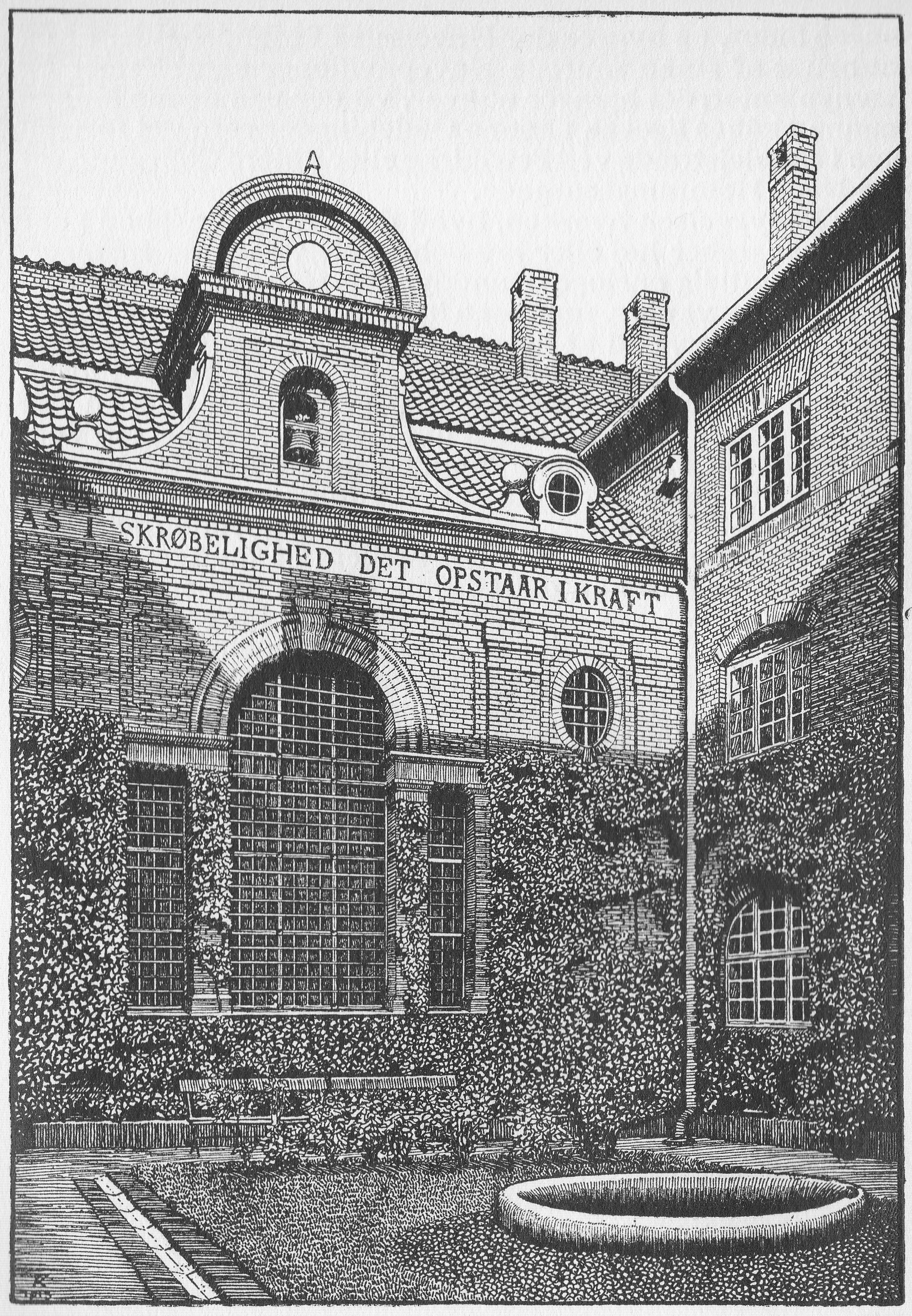 The yard of the foundation Abel Cathrines Stiftelse created by Hermann Baagøe Storck at Abel Cathrines Gade in Vesterbro in Copenhagen.